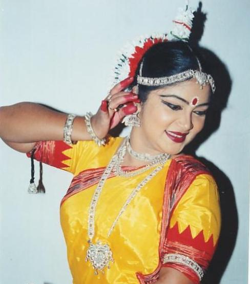 Benazir Salam, an Odissi dancer of Bangladesh and an ICCR scholar graduating from Rabindra Bharati University, Kolkata, India